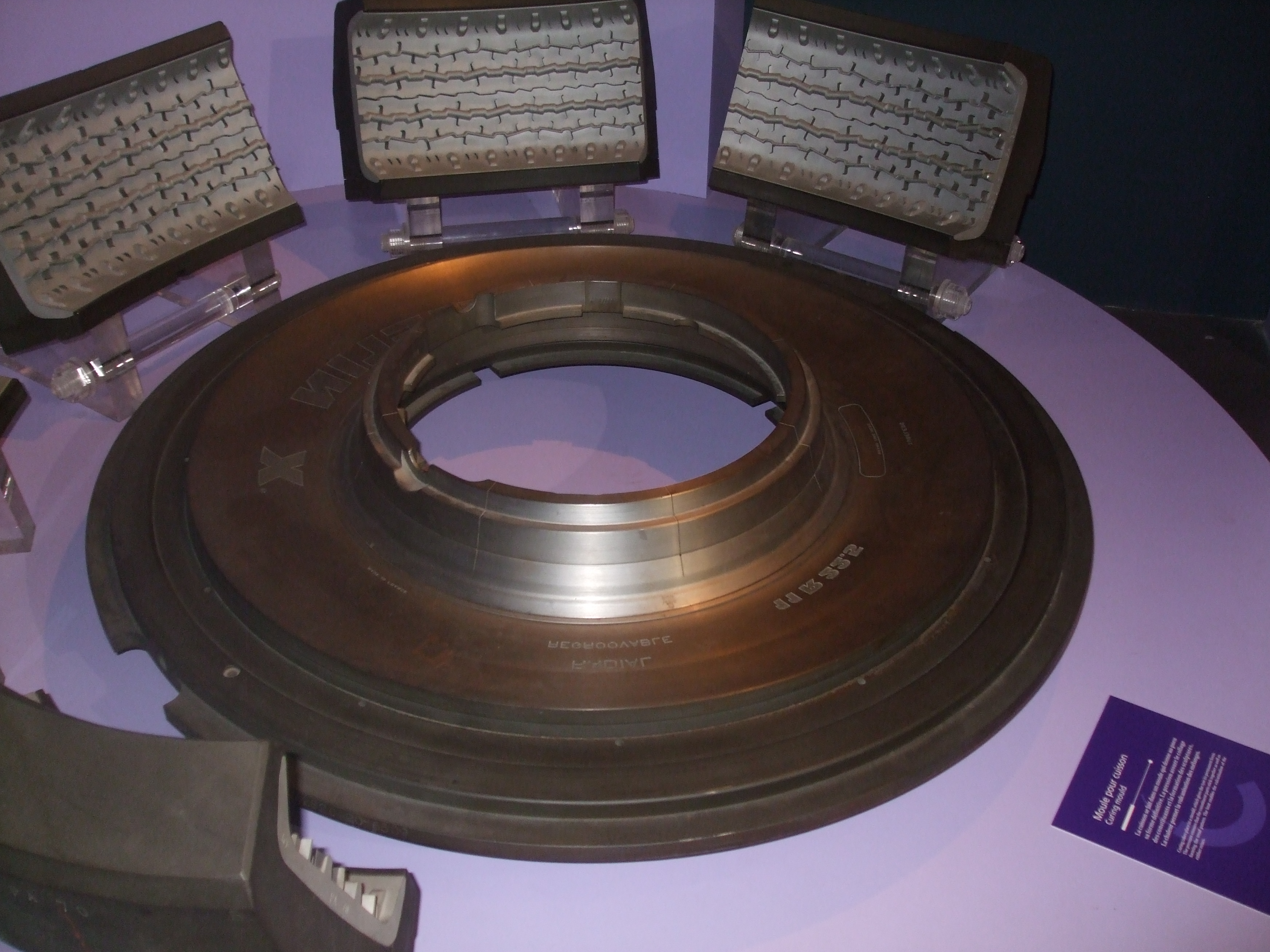 The Michelin Adventure in Clermont-Ferrand describes the rôle of Michelin in the development of the tyre. A Tyre curing mould for a 11R22.5 tyre. The pressure assures the formation of the tyre, while the heat causes vulcanisation.